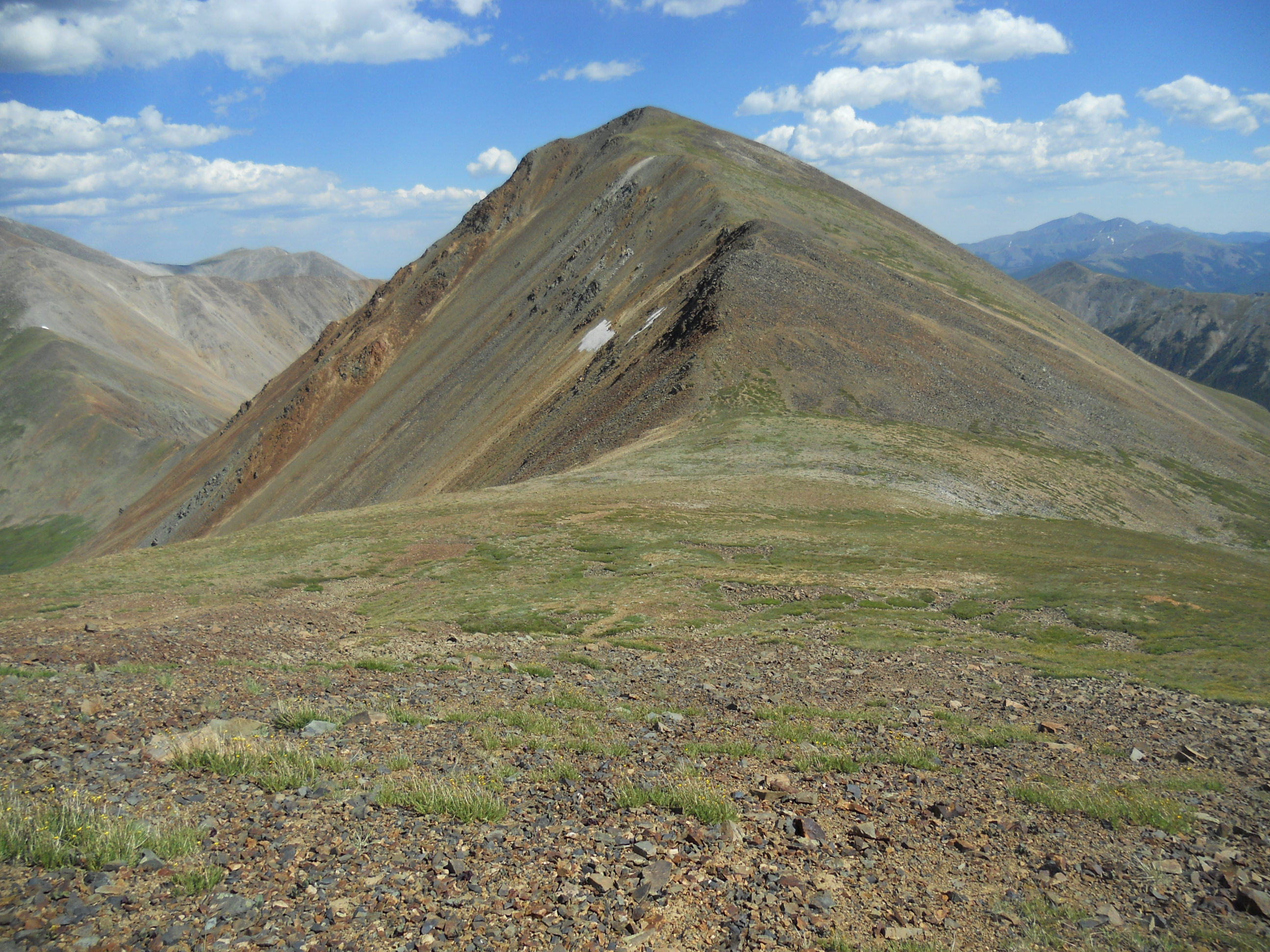 Carbonate Mountain, elevation 13,663 ft (4,164 m), as viewed from the northwest. This mountain is located in the San Isabel National Forest.